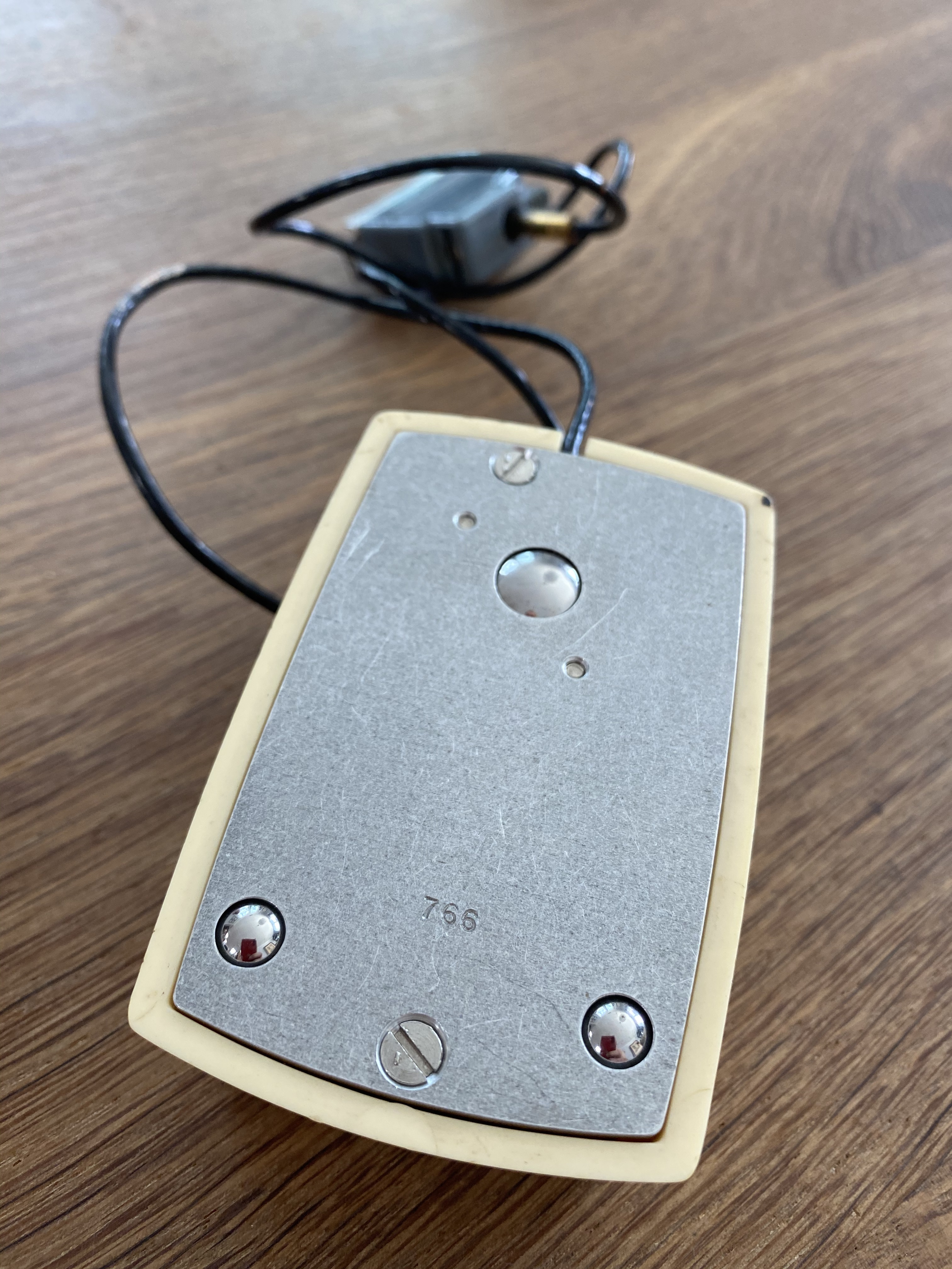 Underside of Xerox Alto computer mouse ca. 1973